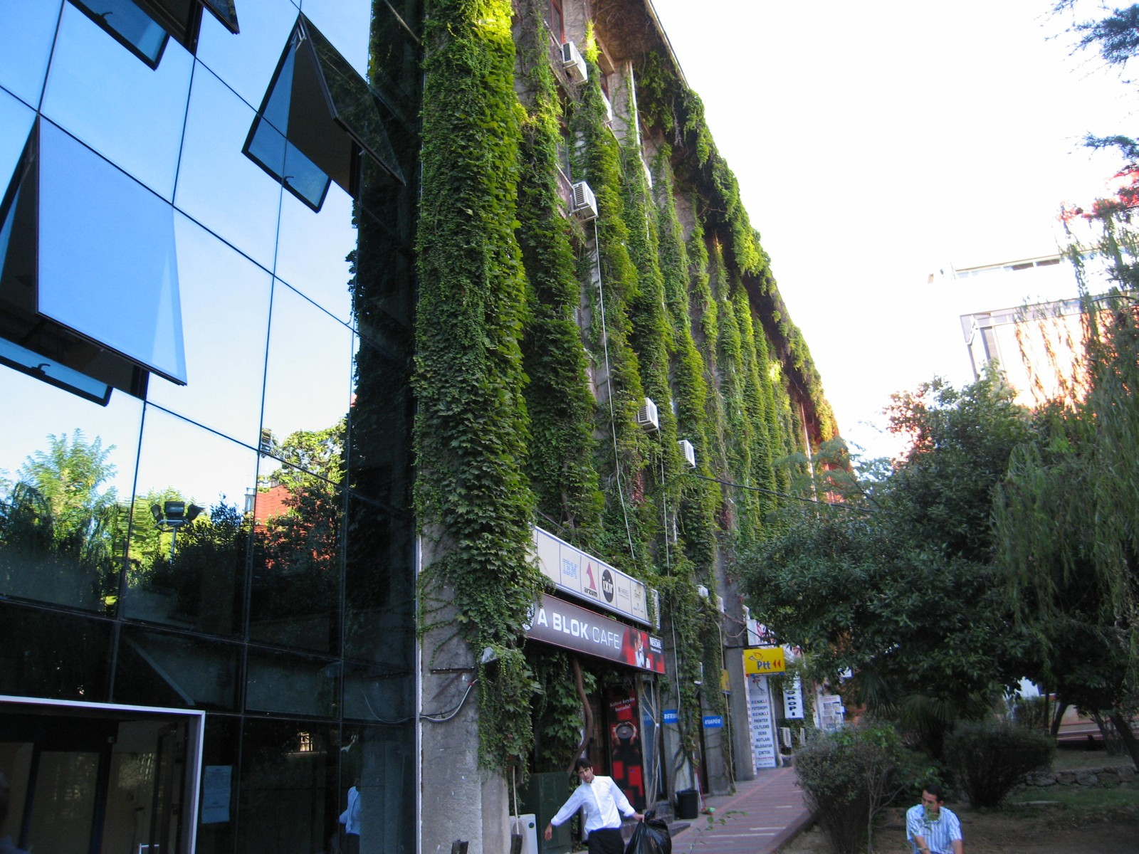 Yıldız Technical University in Istanbul, A block